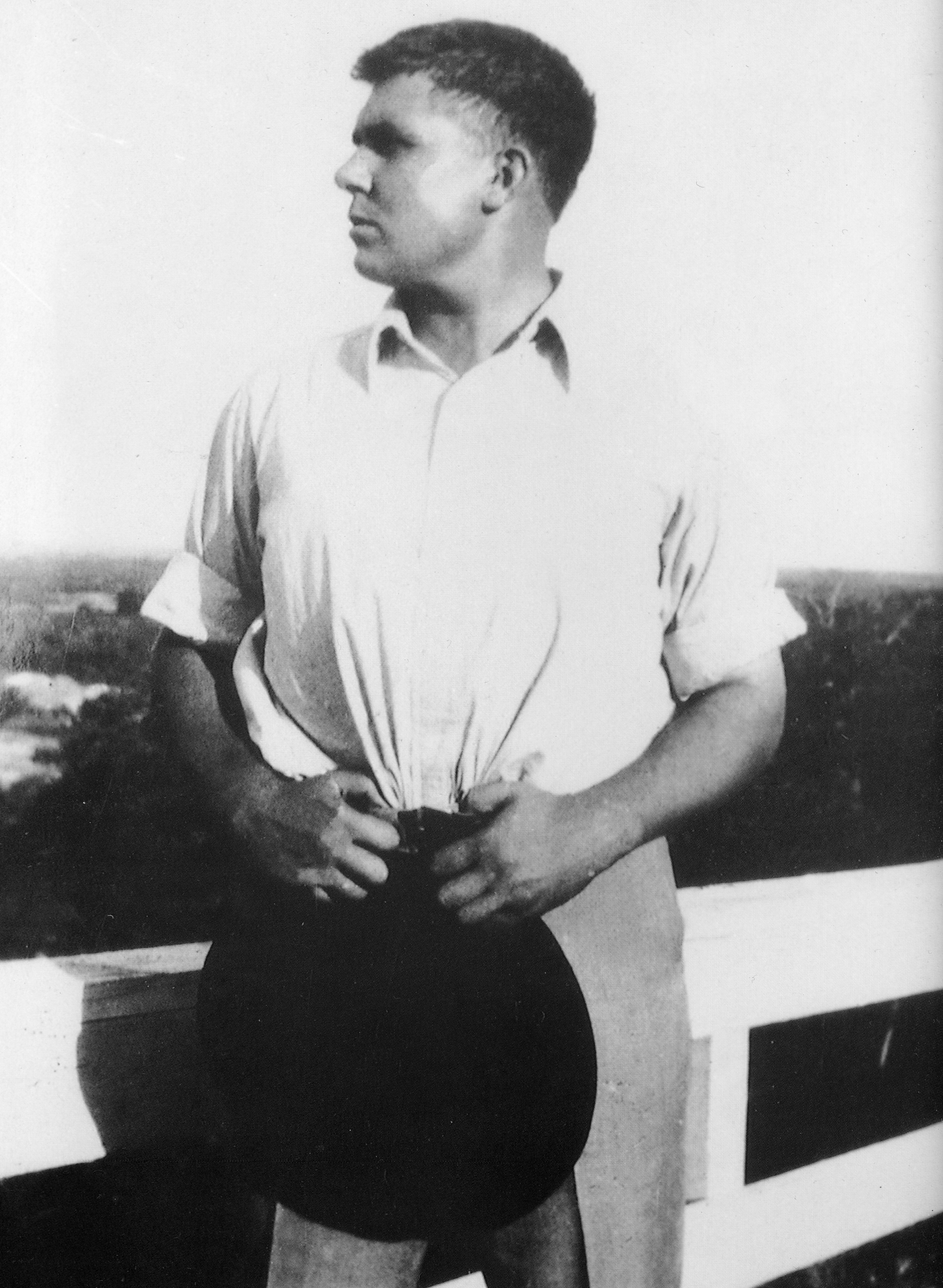 Photograph of Robert E. Howard